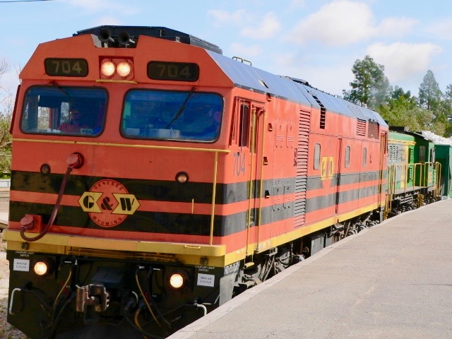 The G&W 704 Penrice quarry limestone train passing the Tanunda railway station on the way to Osbourne, Port Adelaide